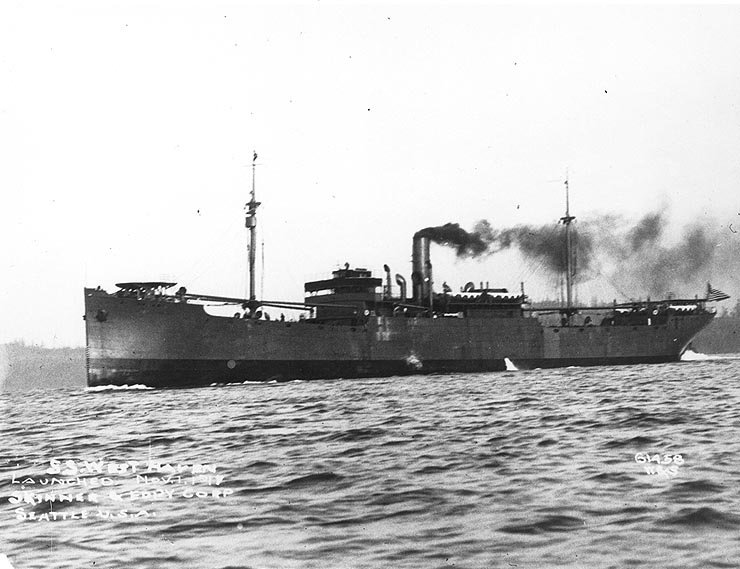 SS West Haven underway, circa December 1917. She was USS West Haven (ID-2159) in 1918-19.